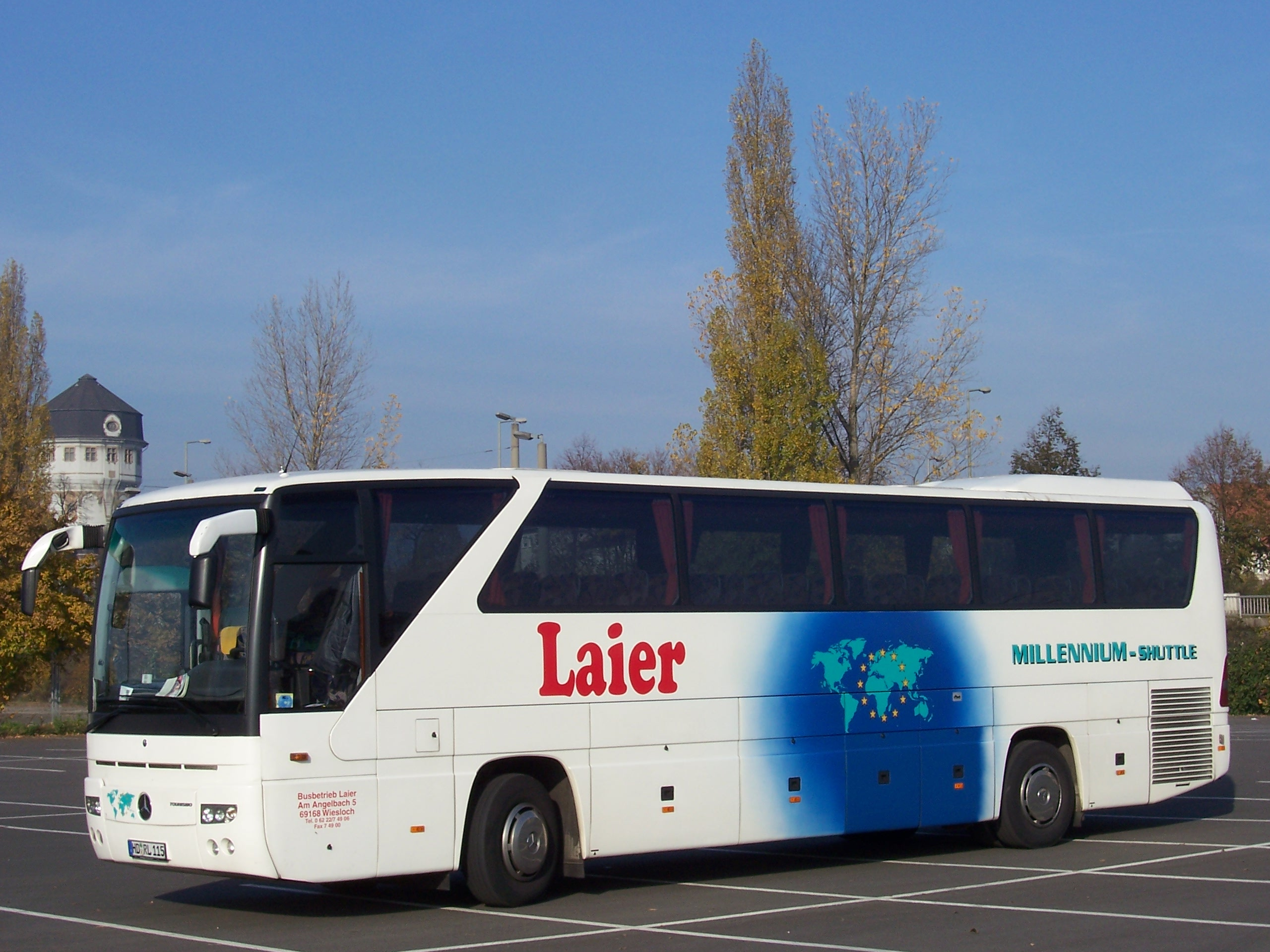 An EvoBus/Mercedes-Benz Tourismo at MOT 2005 in Mannheim, Germany My own photo from 13-nov-2005